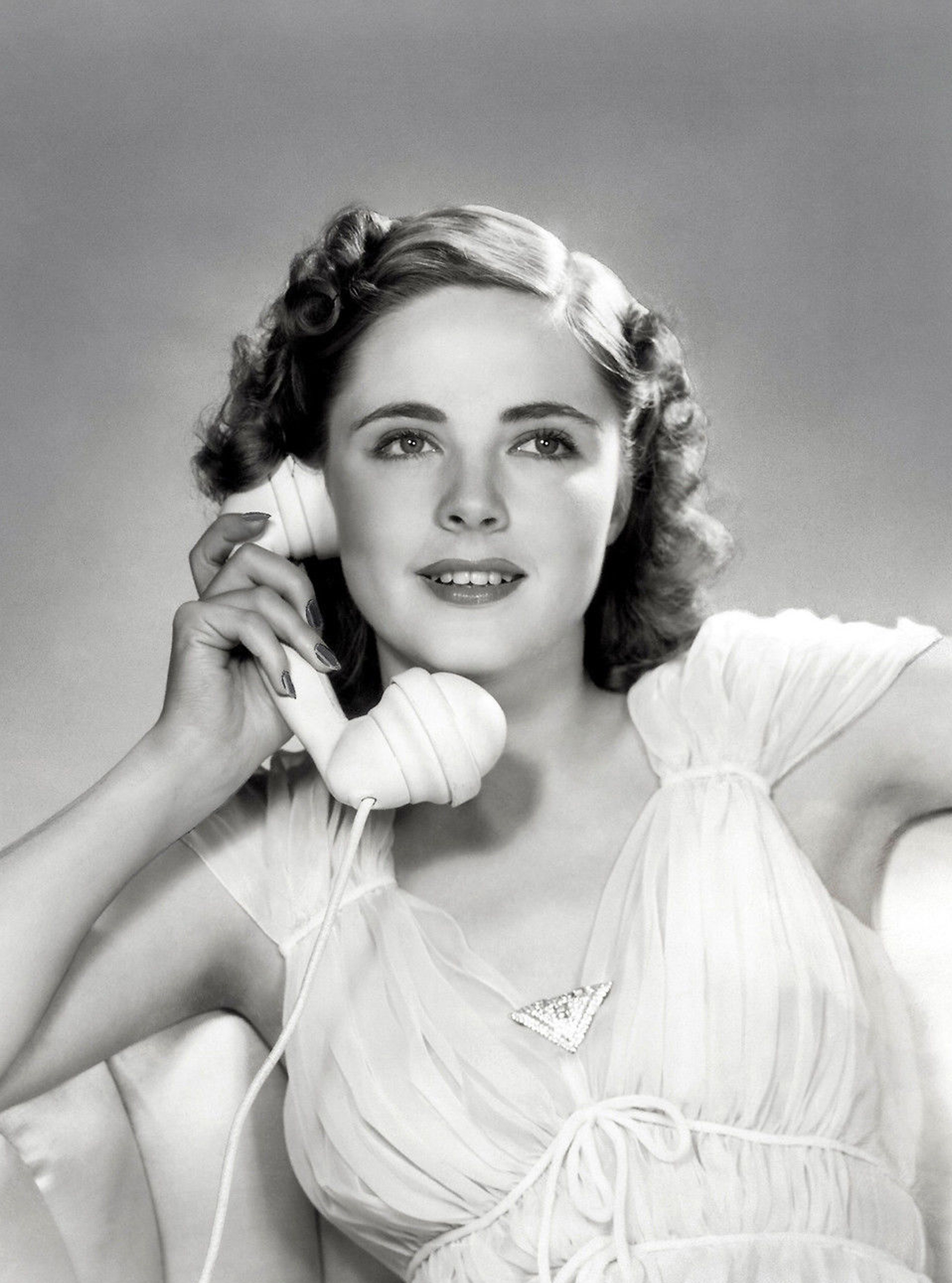 Kay Aldridge publicity photo, c. 1940s (cropped)